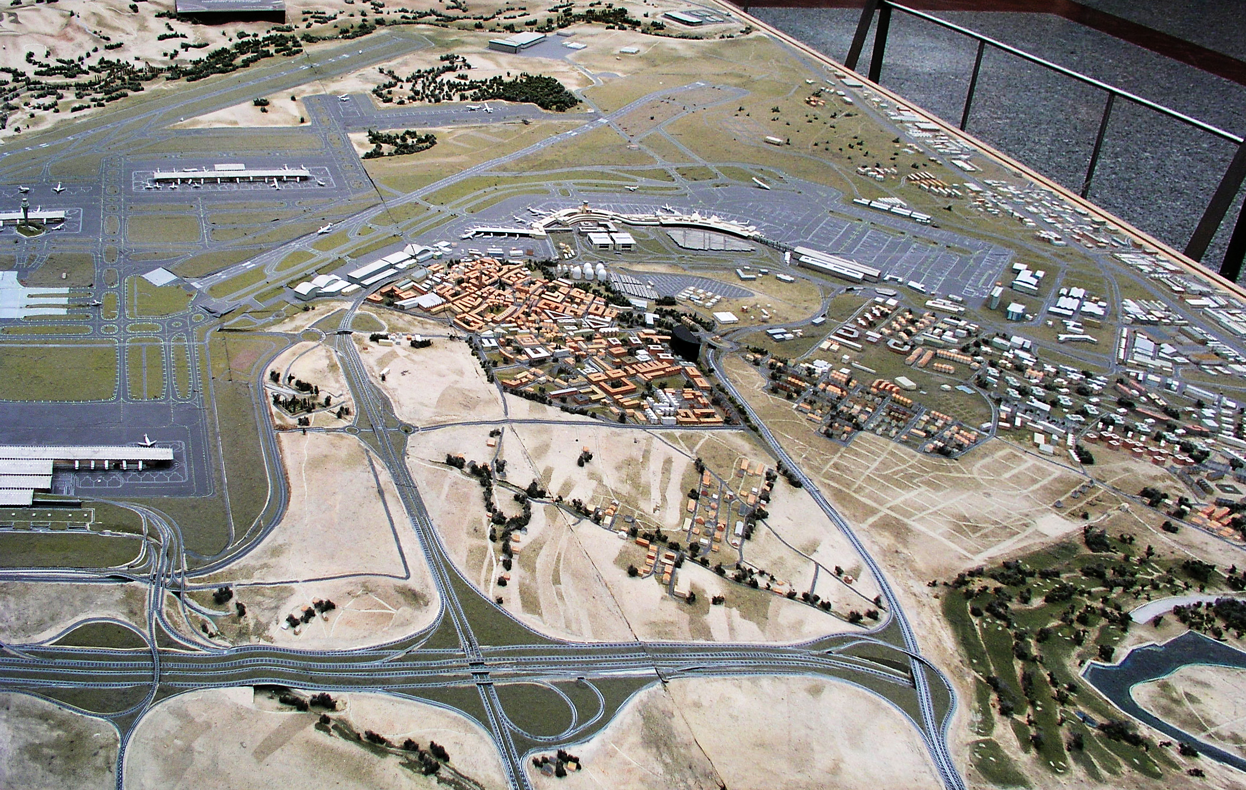 Barajas airport, shown in maqueta (scale model) 2003, at the Barajas airport. Madrid, Spain.